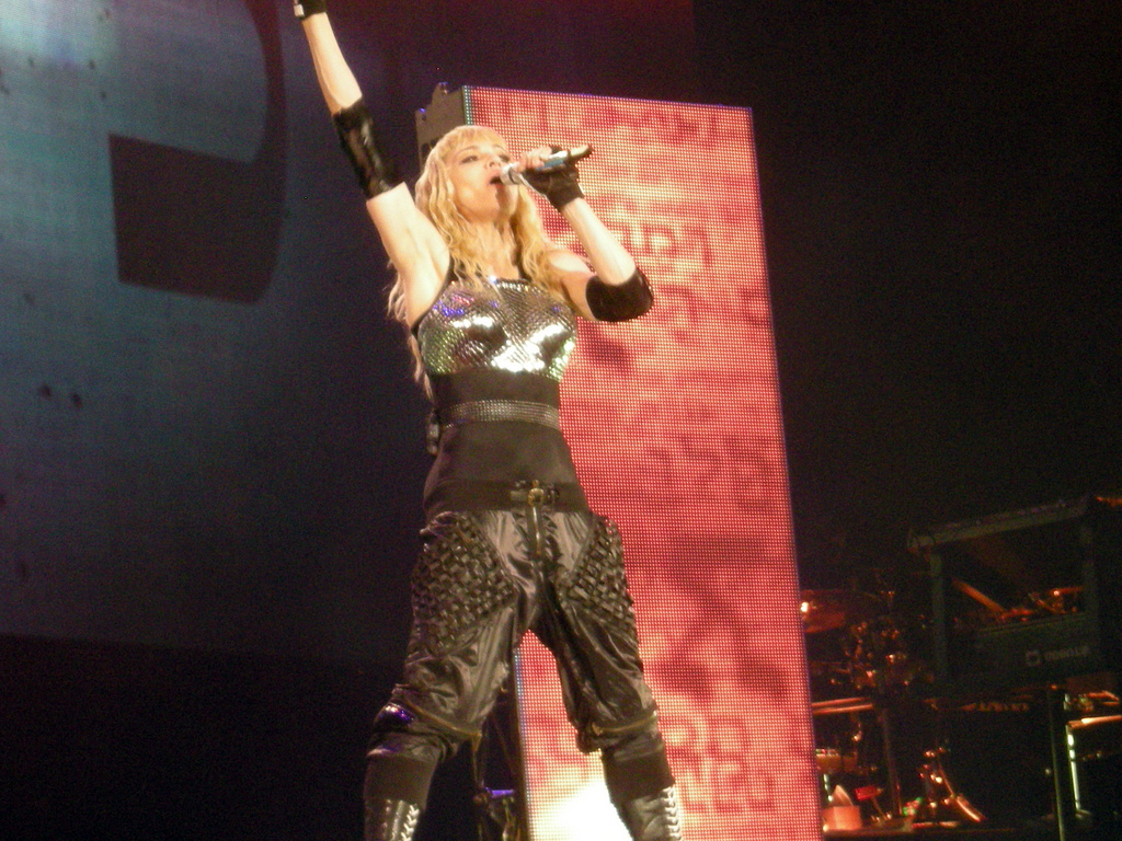 Madonna - Amsterdam ArenA - September 2, 2008